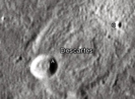 Descartes lunar crater as seen from Earth with satellite craters labeled